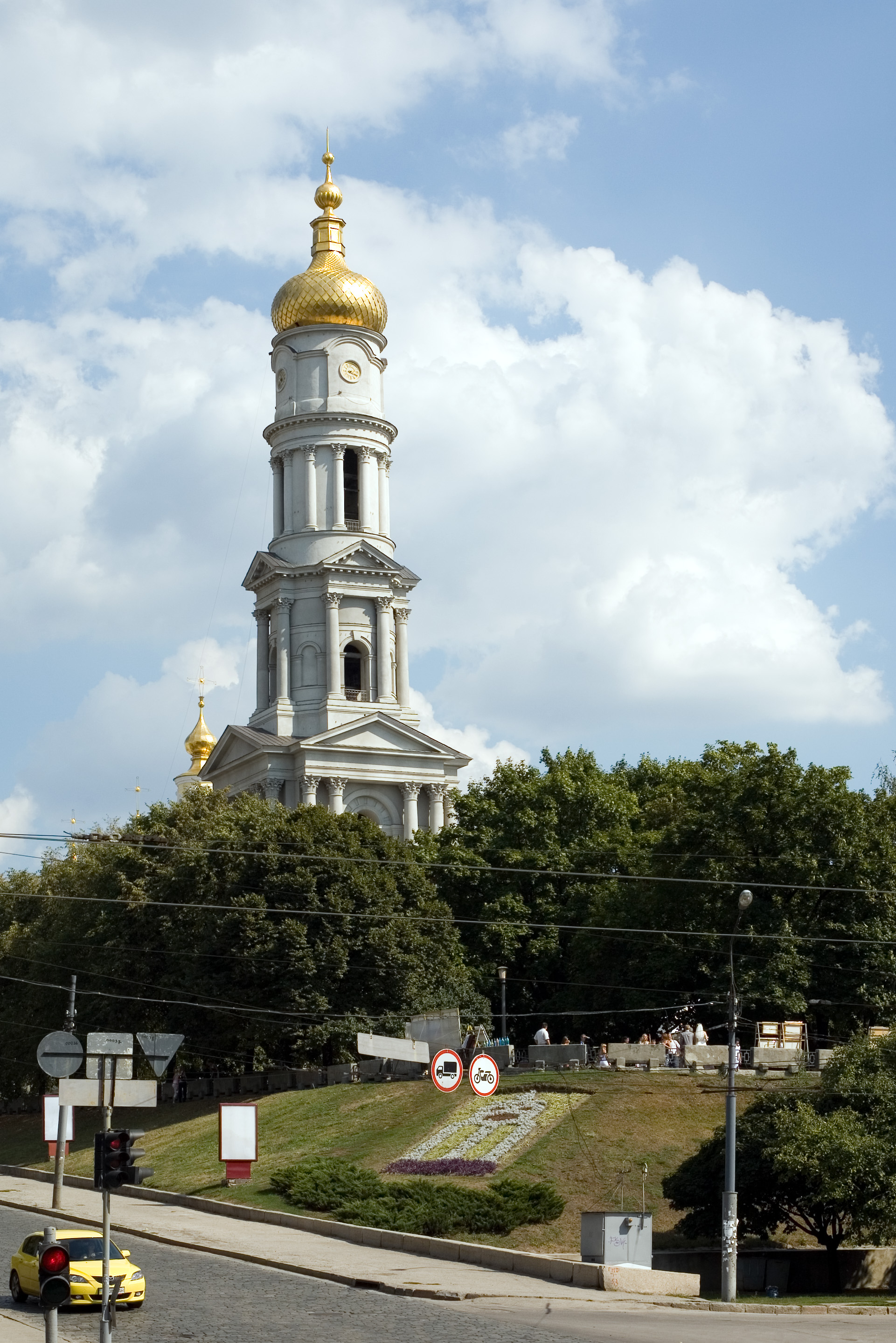 Uspensky Cathedral, Kharkov.